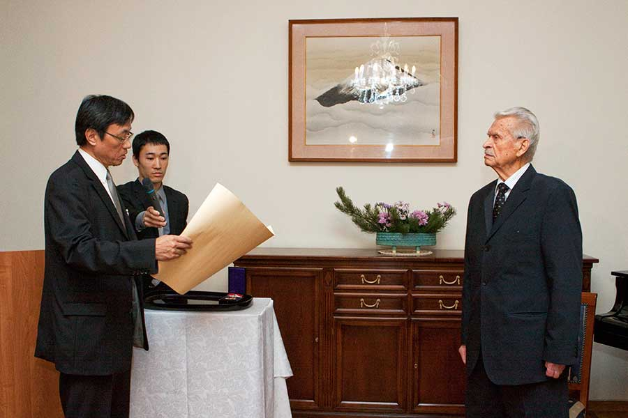 Bogolyubov Japan